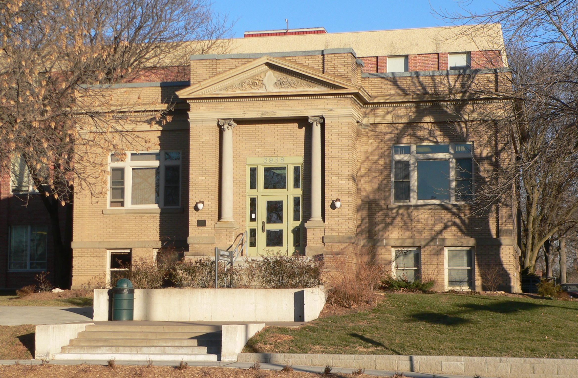 College View Public Library, located at 3938 S. 48th Street in Lincoln, Nebraska. The building is now part of Union College, under the name "Carnegie Building"; a sign on the south side gives its address as 4810 Prescott Avenue. View is from the west.